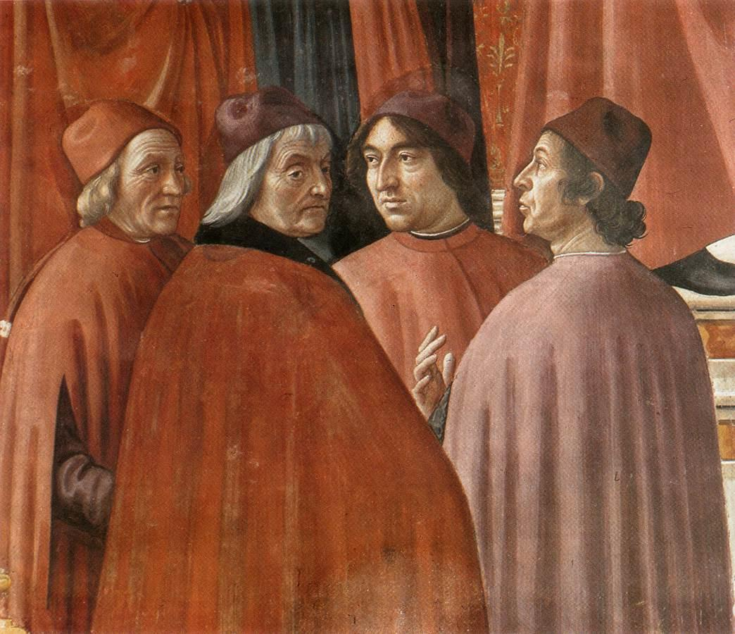 Domenico Ghirlandaio: Zachariah in the Temple (detail): Marsilio Ficino, Cristoforo Landino, Angelo Poliziano and Demetrios Chalkondyles. Fresco. Santa Maria Novella, Cappella Tornabuoni, Florence, Italy. 1486-1490.